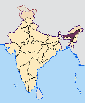 Note: The Indian state of Jammu and Kashmir is claimed by India, Pakistan and the People's Republic of China. This map depicts the boundaries of the state as it was in 1947. Areas administered by India is coloured as per the rest of the states, and the area administered by Pakistan and China are coloured in a neutral colour. See the map of Jammu and Kashmir. The Indian state of Arunachal Pradesh is claimed by China as a part of South Tibet. The claimed region is depicted in a pale shade of pink. See the map of Arunachal Pradesh. The Indian territorial waters extend to a distance of twelve nautical miles.